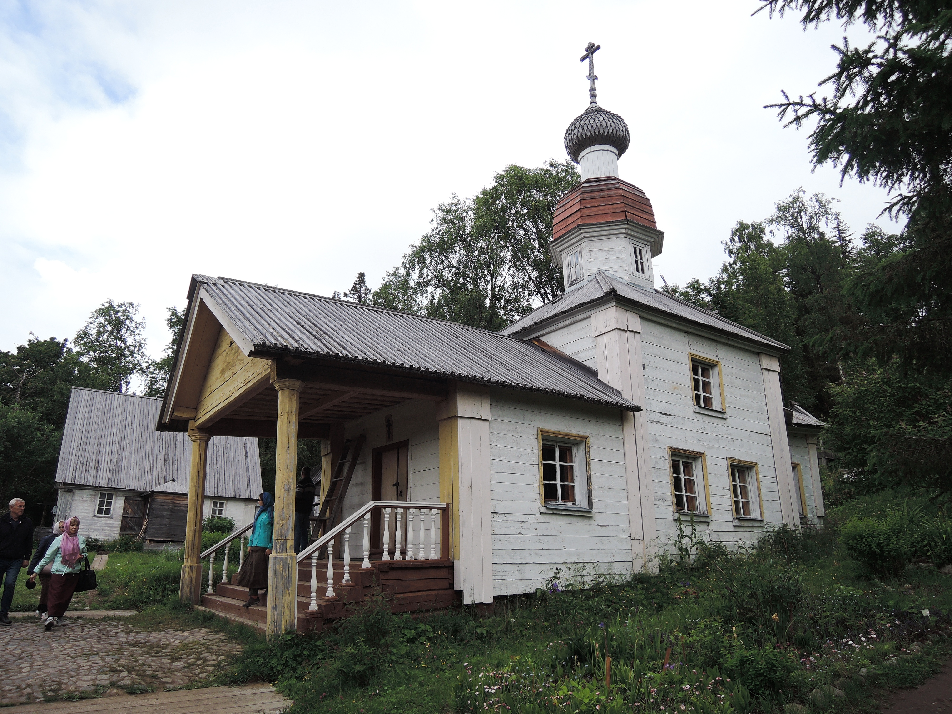 Resurrection church in Golgofa skete